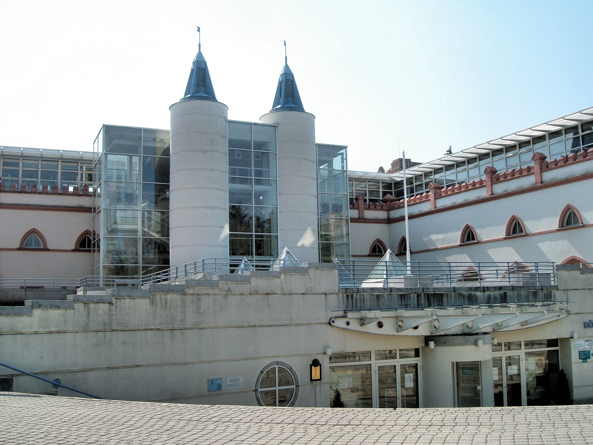 Károly Eötvös County Library, Veszprém. Originally the palace of the bishopric administrator, renovated and extended by Antal Lázár and Zoltán Szécsi in 1995-98.